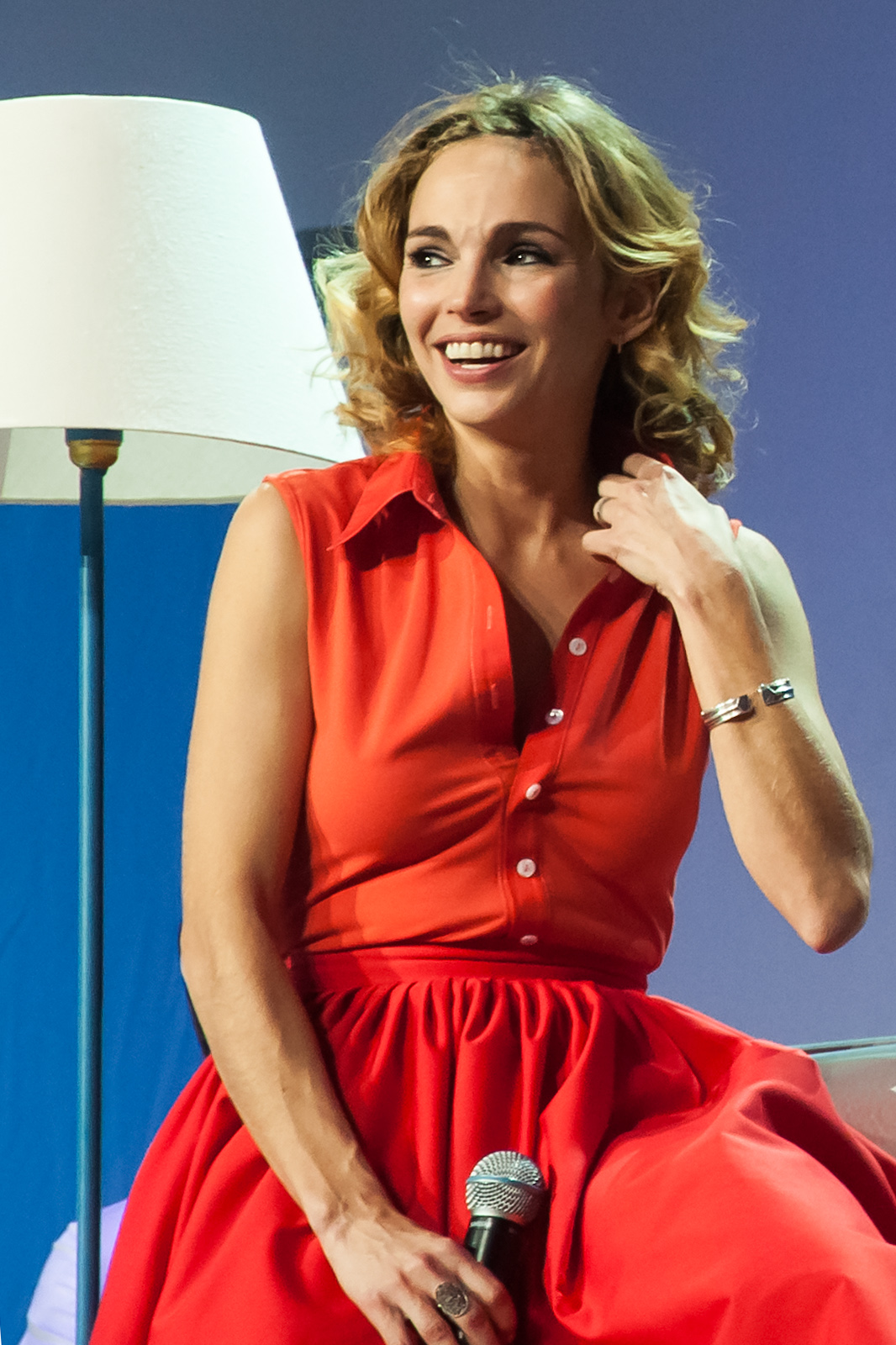 Claire Keim at Les Enfoirés in Palais omnisports de Paris-Bercy, on 24th of January 2013.